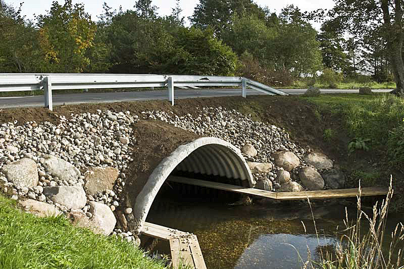 Small fauna crossing for amphibians, fox, hares and other small animals.